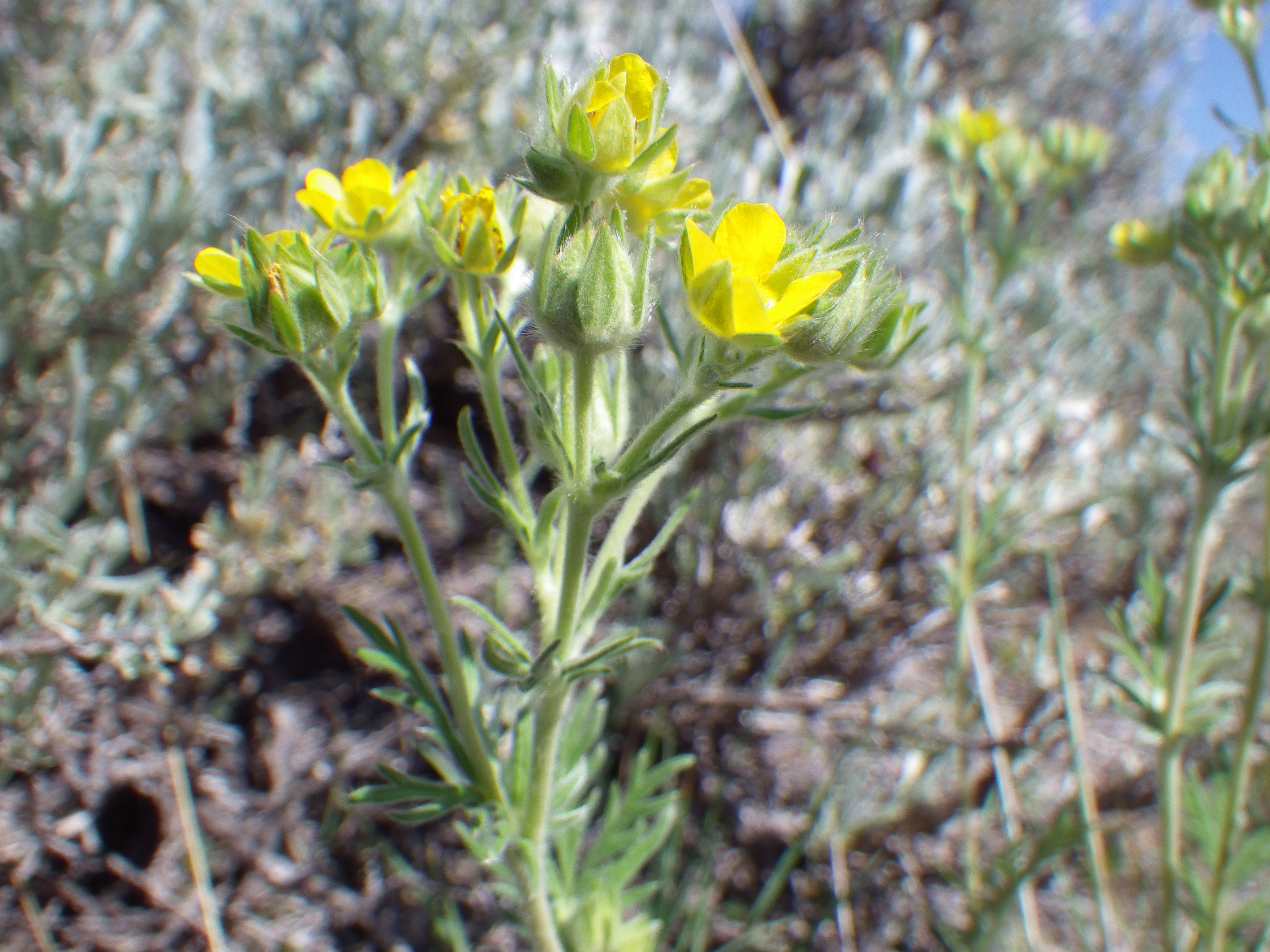 The pinnately compound leaves with tomentose under-surfaces and stiples that are highly dissected distinguish this perennial cinquefoil that is common to open arid settings such as in the sagebrush steppe.